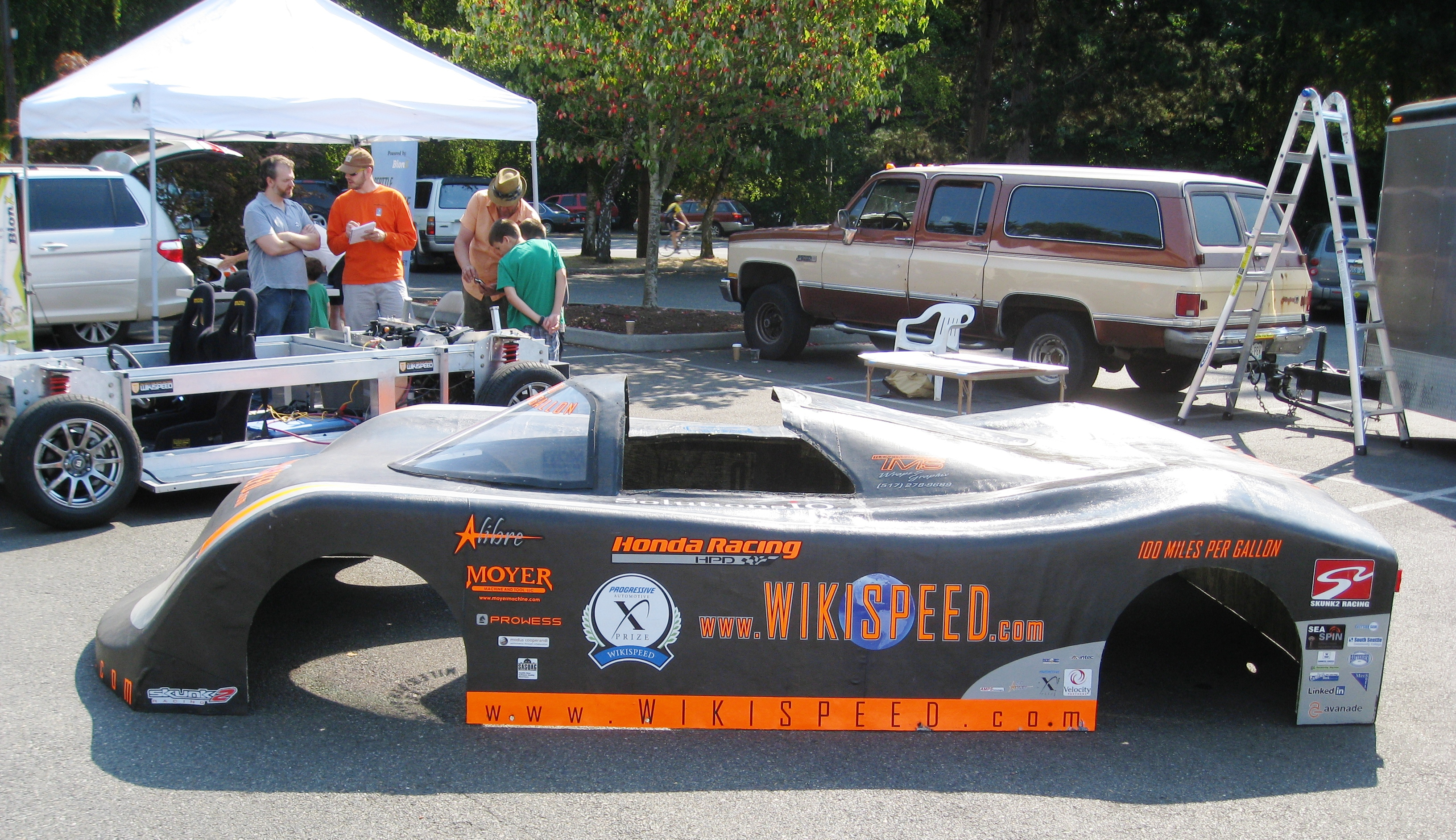 Seen at Electric Vehicle Show at our local farmers market This is a gas powered vehicl, but gets over 100 mpg